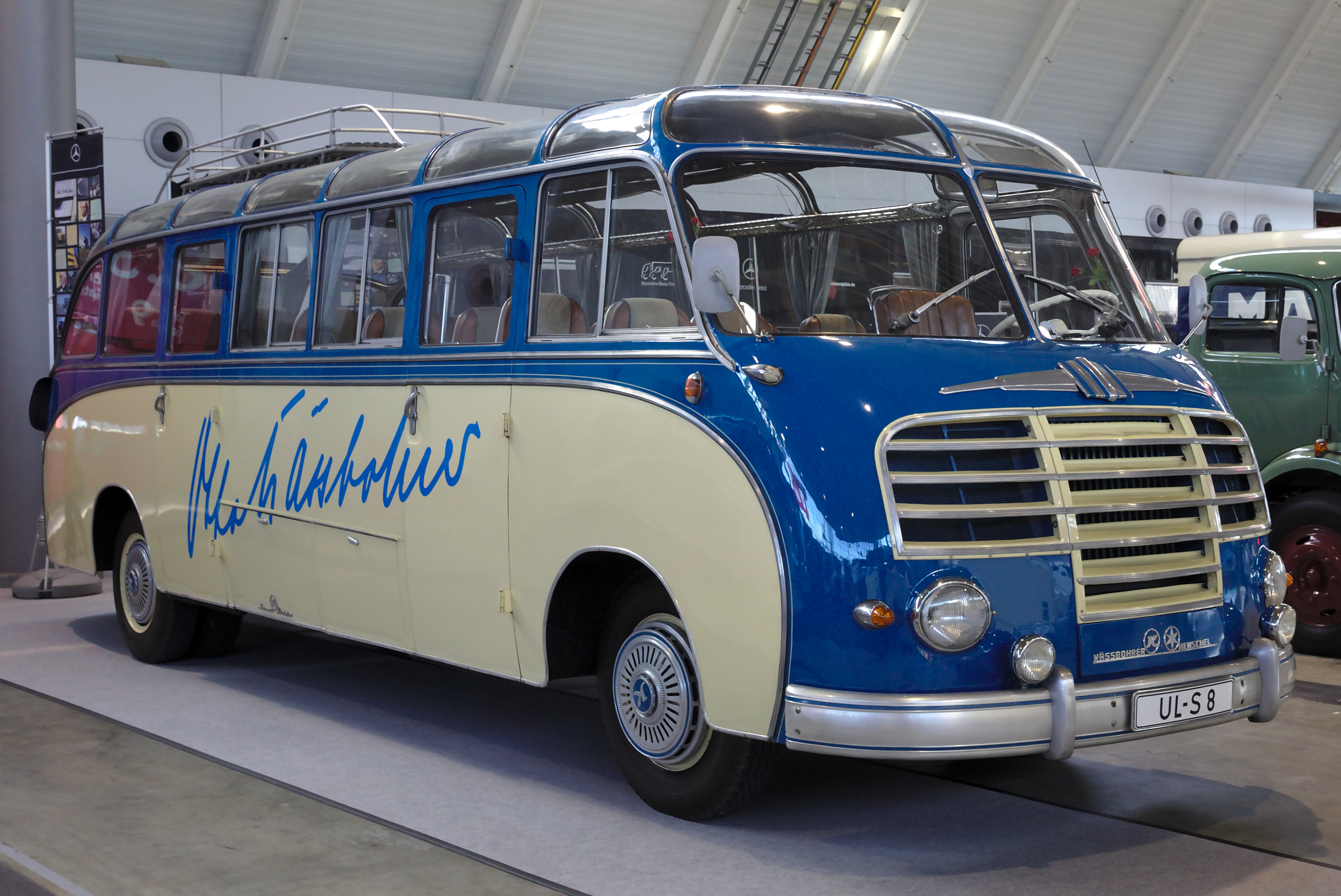 Setra S 8 at Retro Classics 2019